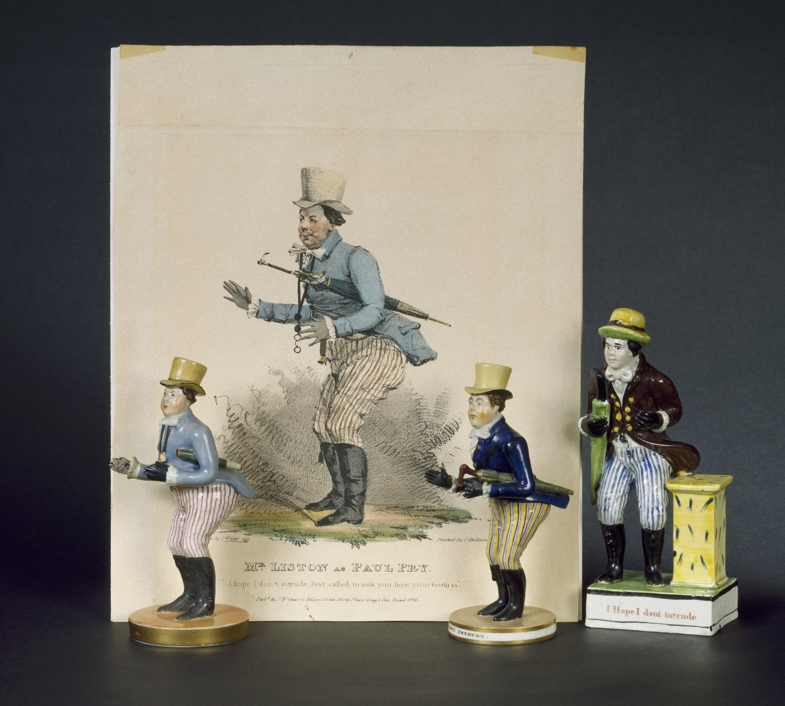 Three porcelain figurines and a hand-coloured lithograph depicting English actor John Liston as the title character in John Poole's 1825 farce, "Paul Pry." Original items are in the collection of the Folger Shakespeare Library, Washington, DC.